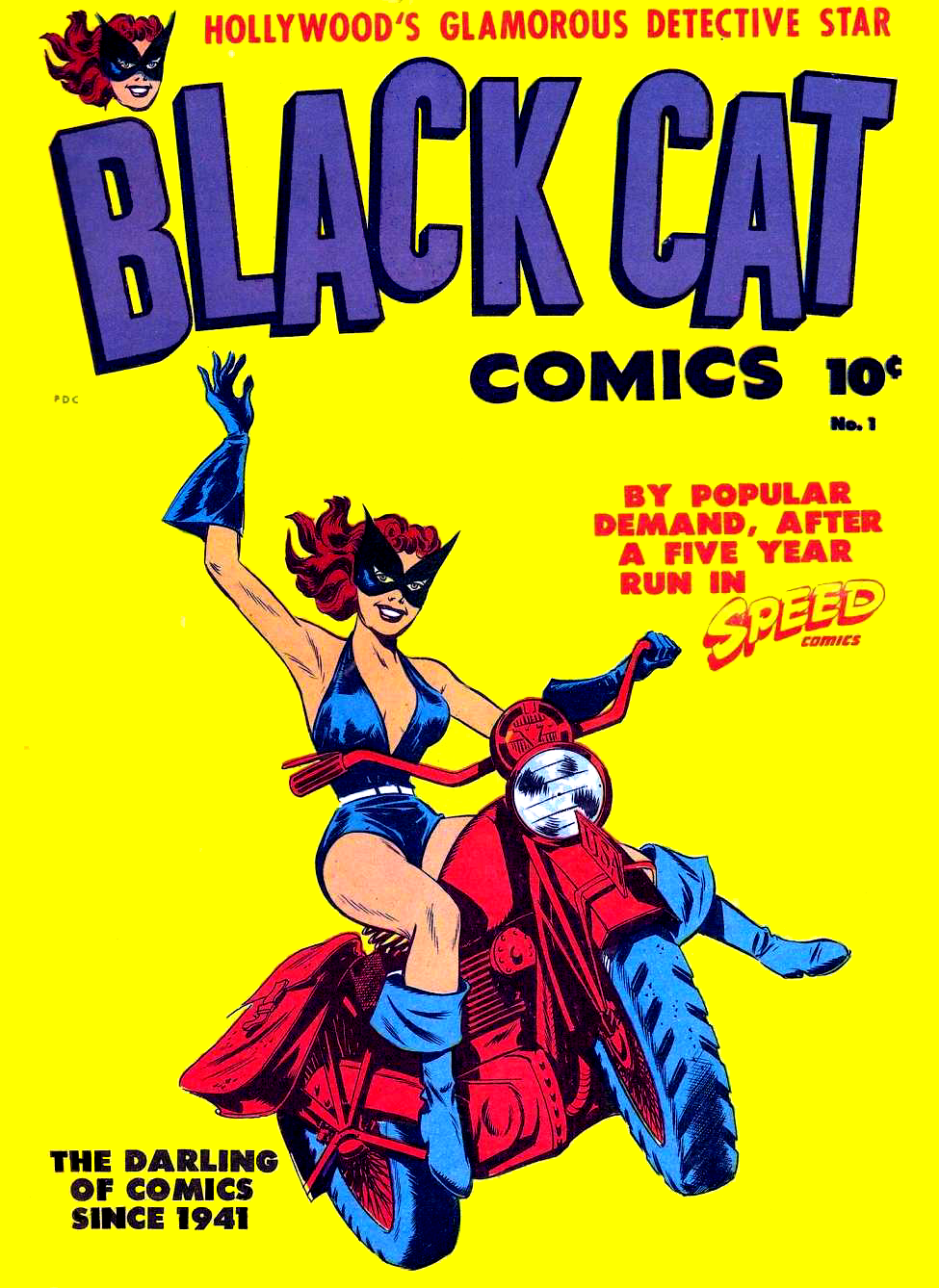 Black Cat number one (June 1946, Harvey Comics). Artwork ascribed to Joe Simon. PNG version of this file.